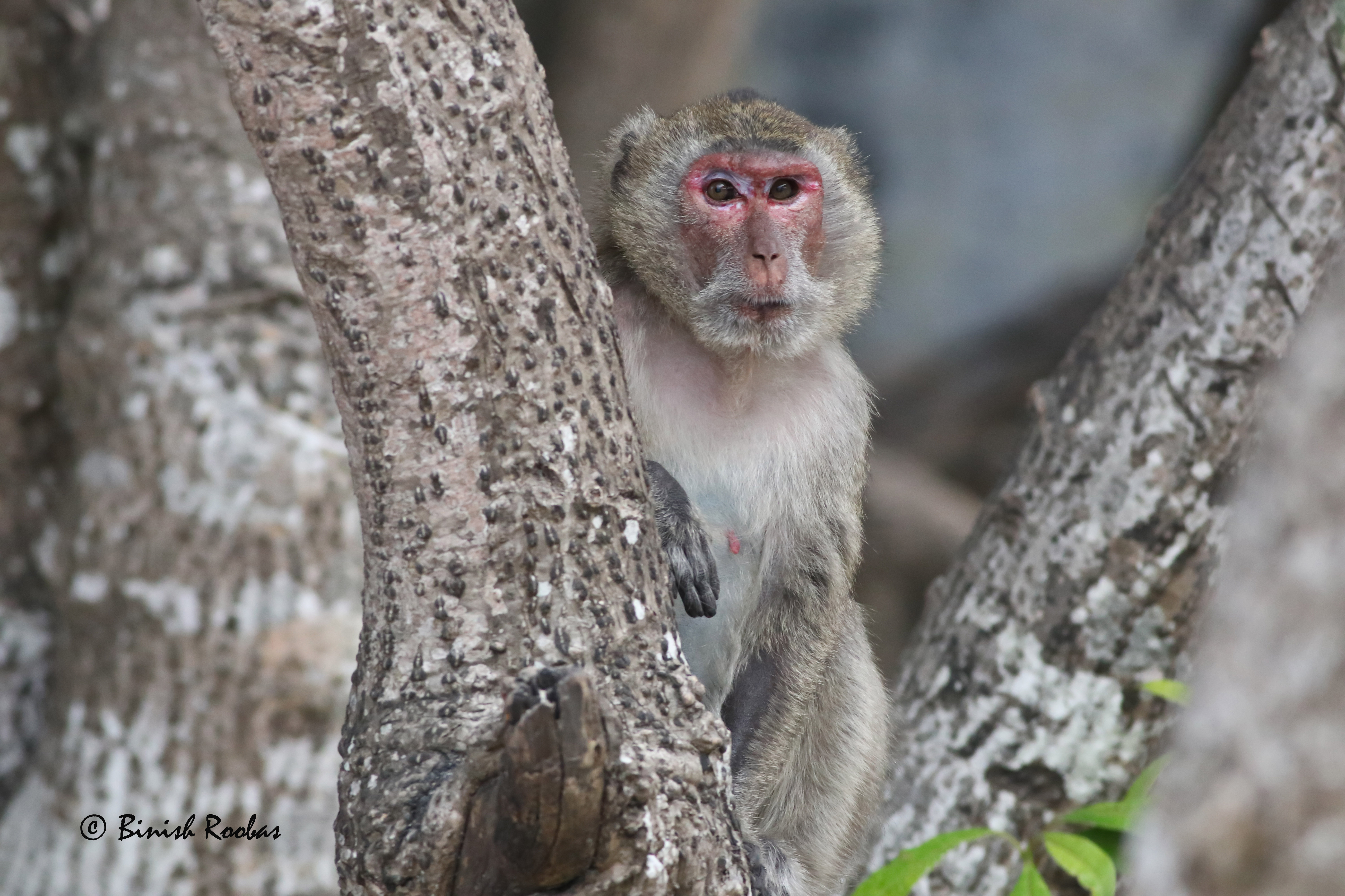 Indochinese Rhesus Macaque